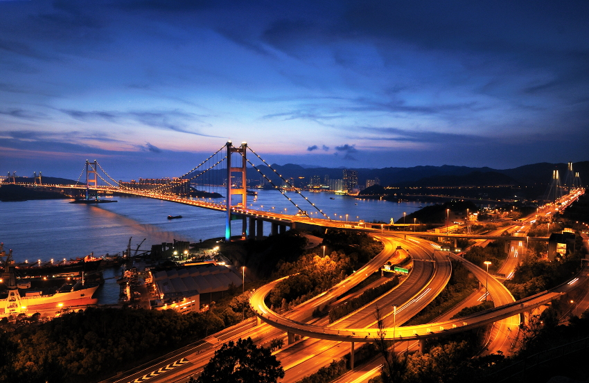 Tsing Ma Bridge 青馬大橋